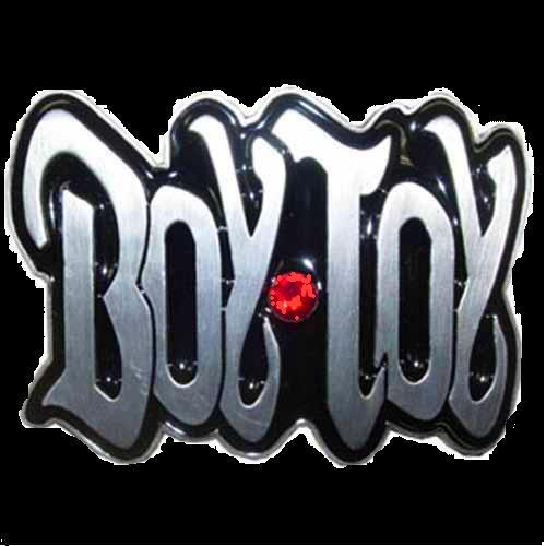 Own imagination of a Boy-toy belt buckle. Madonna used to wear such a buckle during the 80s.